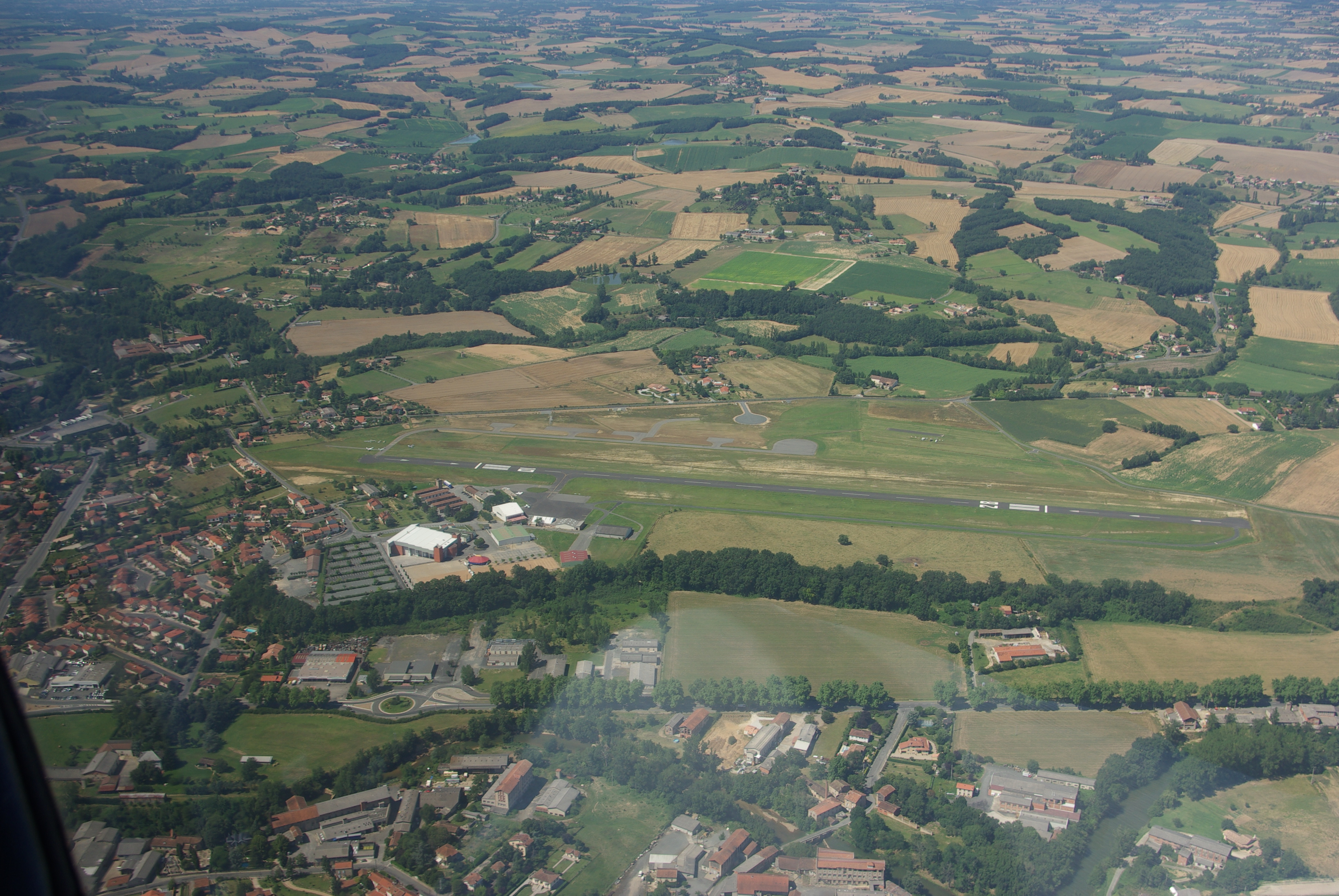 Aerial photo of the Grauhlet airfield (Tarn, France)